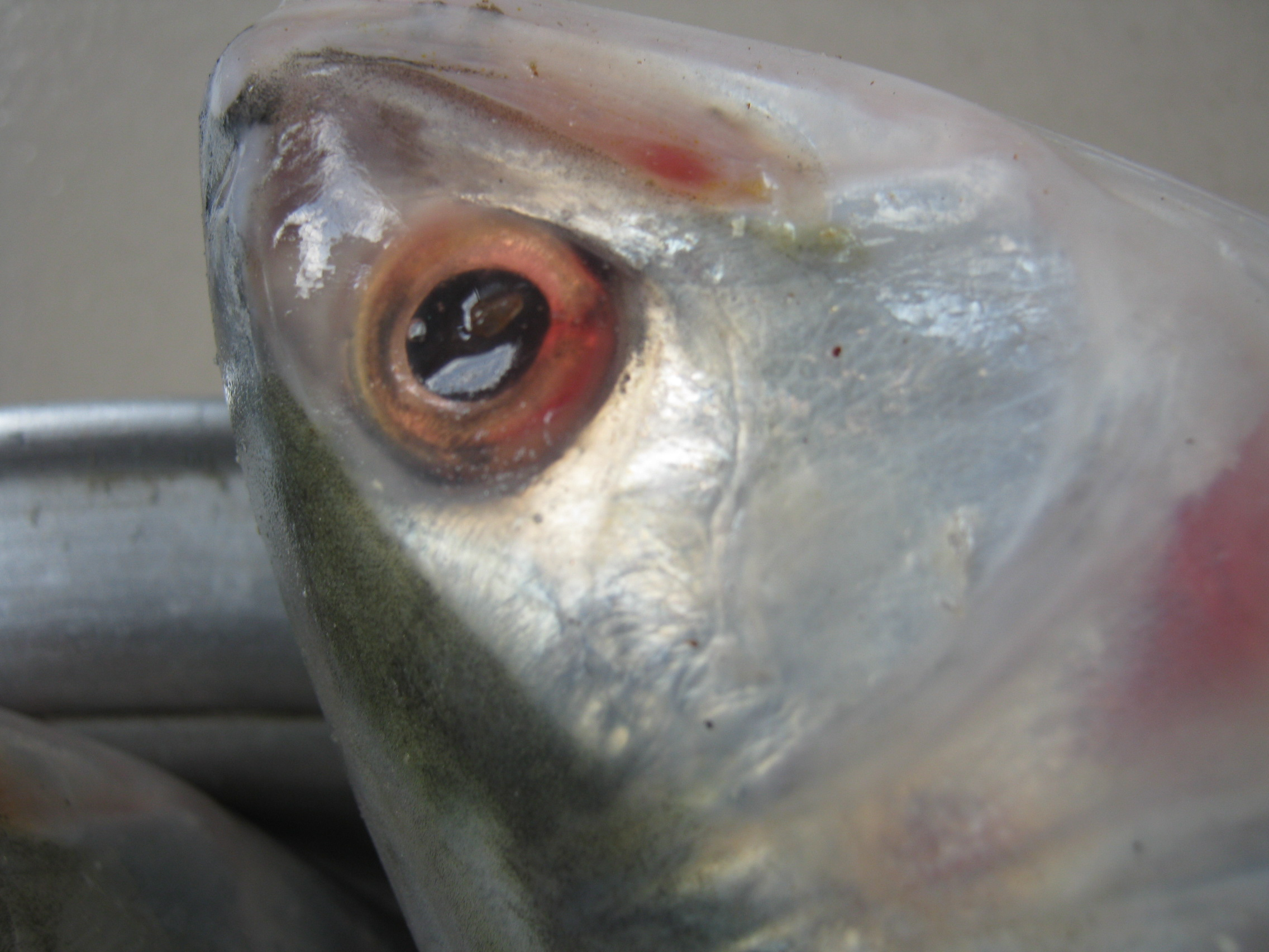 Portrait of Ilish Fish